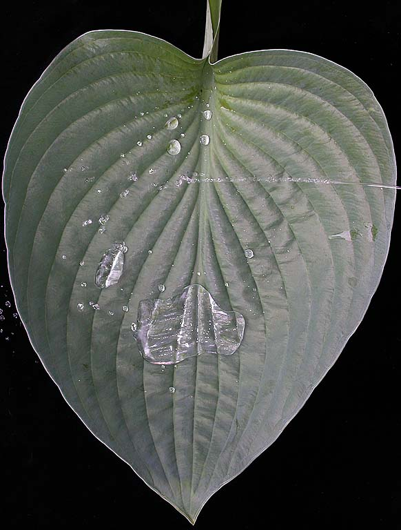 Epicuticular wax crystals make a Hosta leaf surface hydrophobic. Water, prevented from wetting the cuticle, beads up and runs off, carrying dust and other contamination with it.